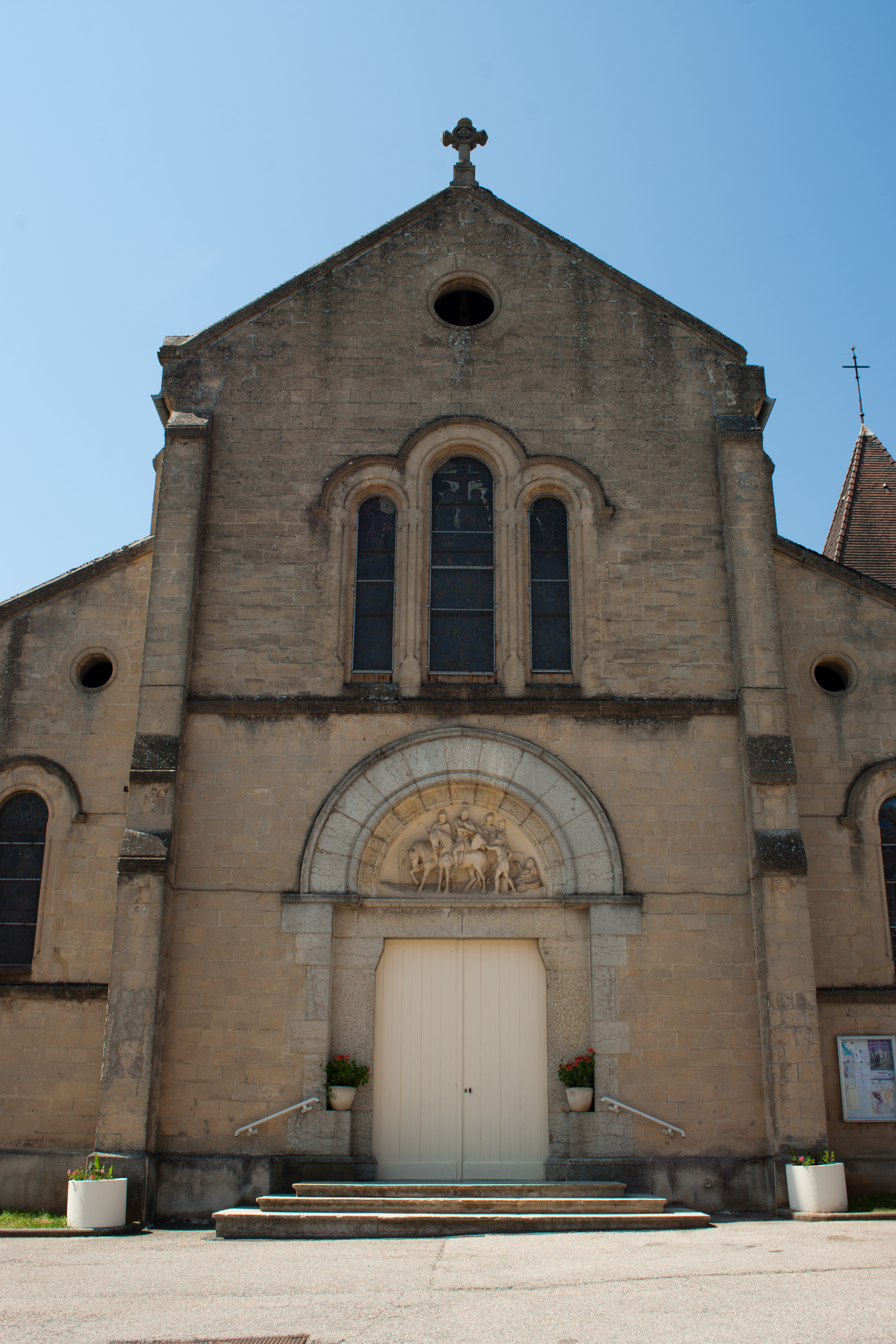 Church in Courtenay, France.